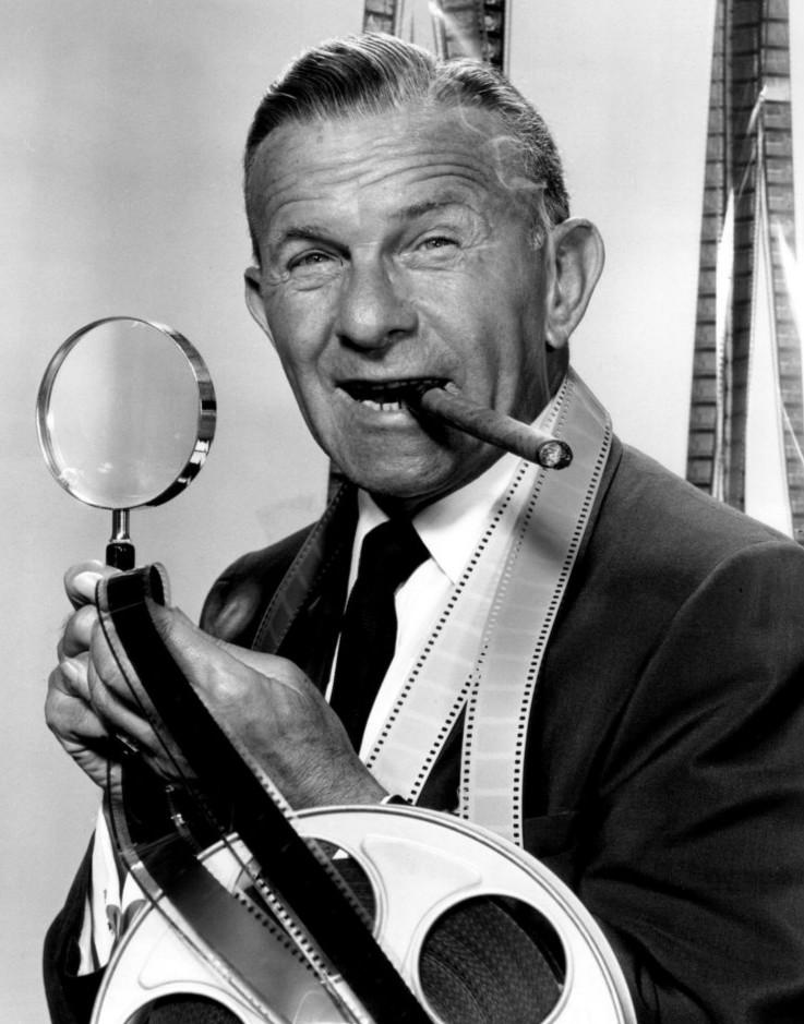 Photo portrait of George Burns.